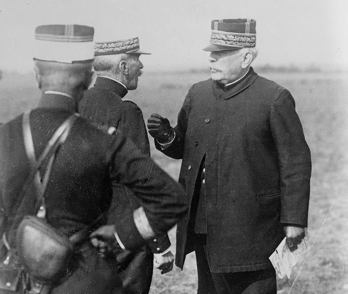 Joseph Joffre giving orders in the field.